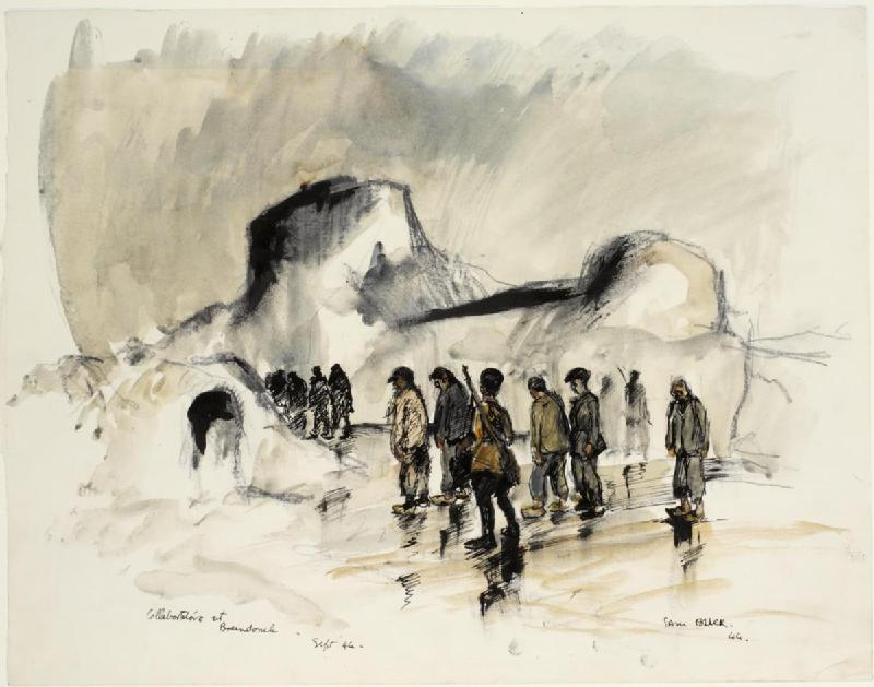 Collaborators Under Escort at Breendonck image: A view of some Belgian collaborators wearing civilian clothing being escorted through ruined buildings by Belgian soldiers.